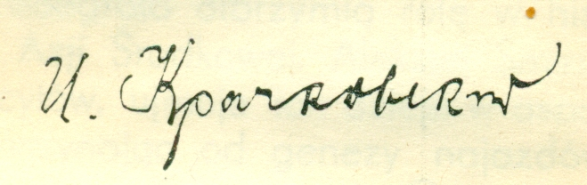 Signature of Ignatiy Krachkovski